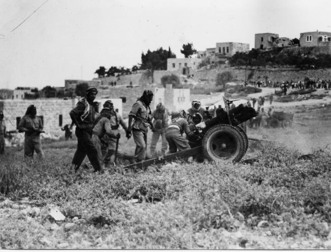 Arab Legion firing 25 pounder field gun during the fighting around Jerusalem, 1948